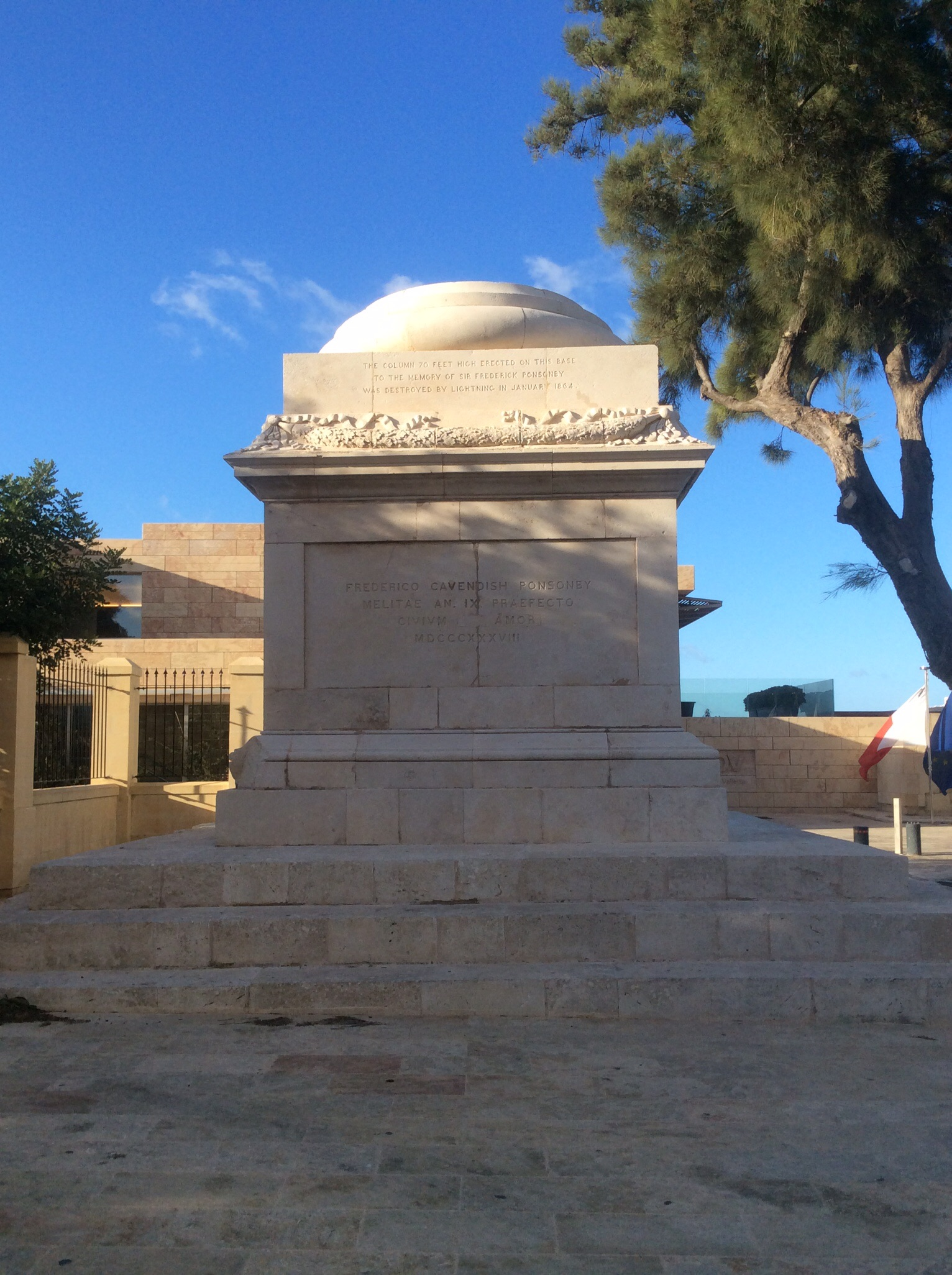 Ponsomby's Column Valletta Garden